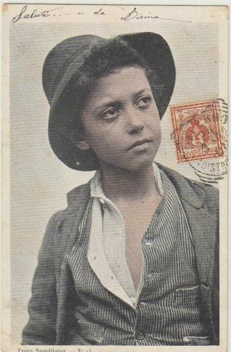 Street boy of Naples, XIX century - Old postcard